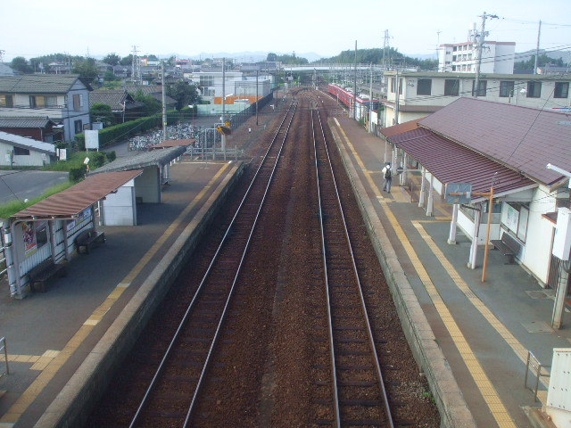 JR Kani-station Sketch.